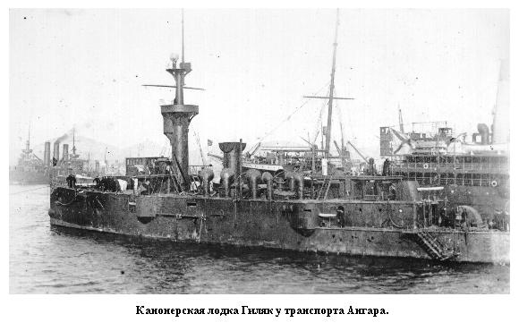 Imperial Russian gunboat Gilyak (I) and transport (Auxiliary cruiser) Angara.